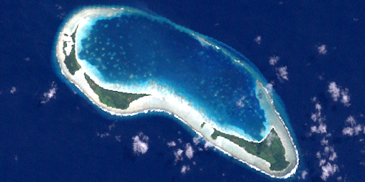 Landsat image of Egmont Islands, Chagos Archipelago, Indian Ocean